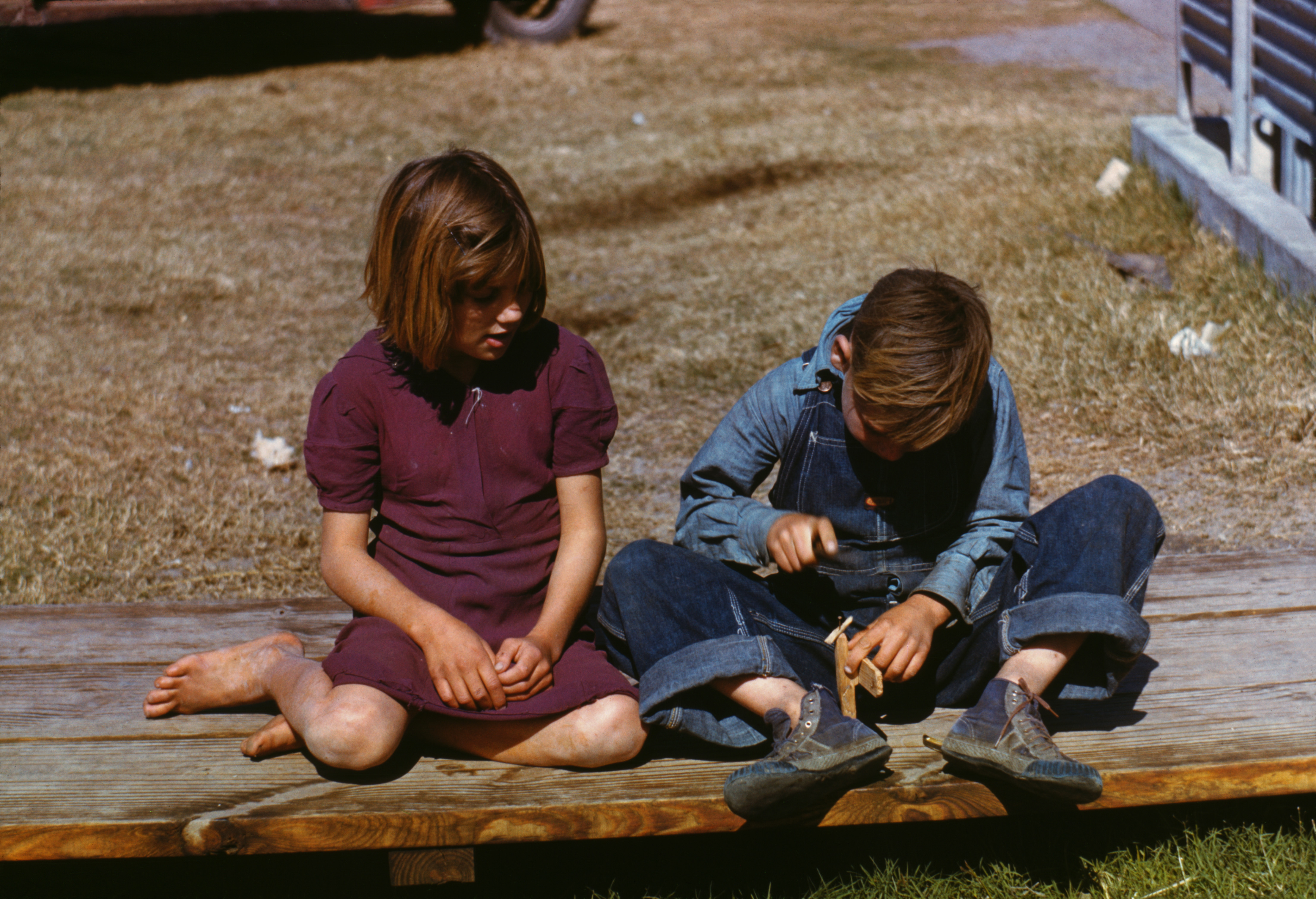 [Boy] building a model airplane [as girl watches], FSA ... camp, Robstown, Tex. The girl is featured on the cover of the Penguin Modern Classics edition of Carson McCullers' The Member of the Wedding (ISBN 0141182822).